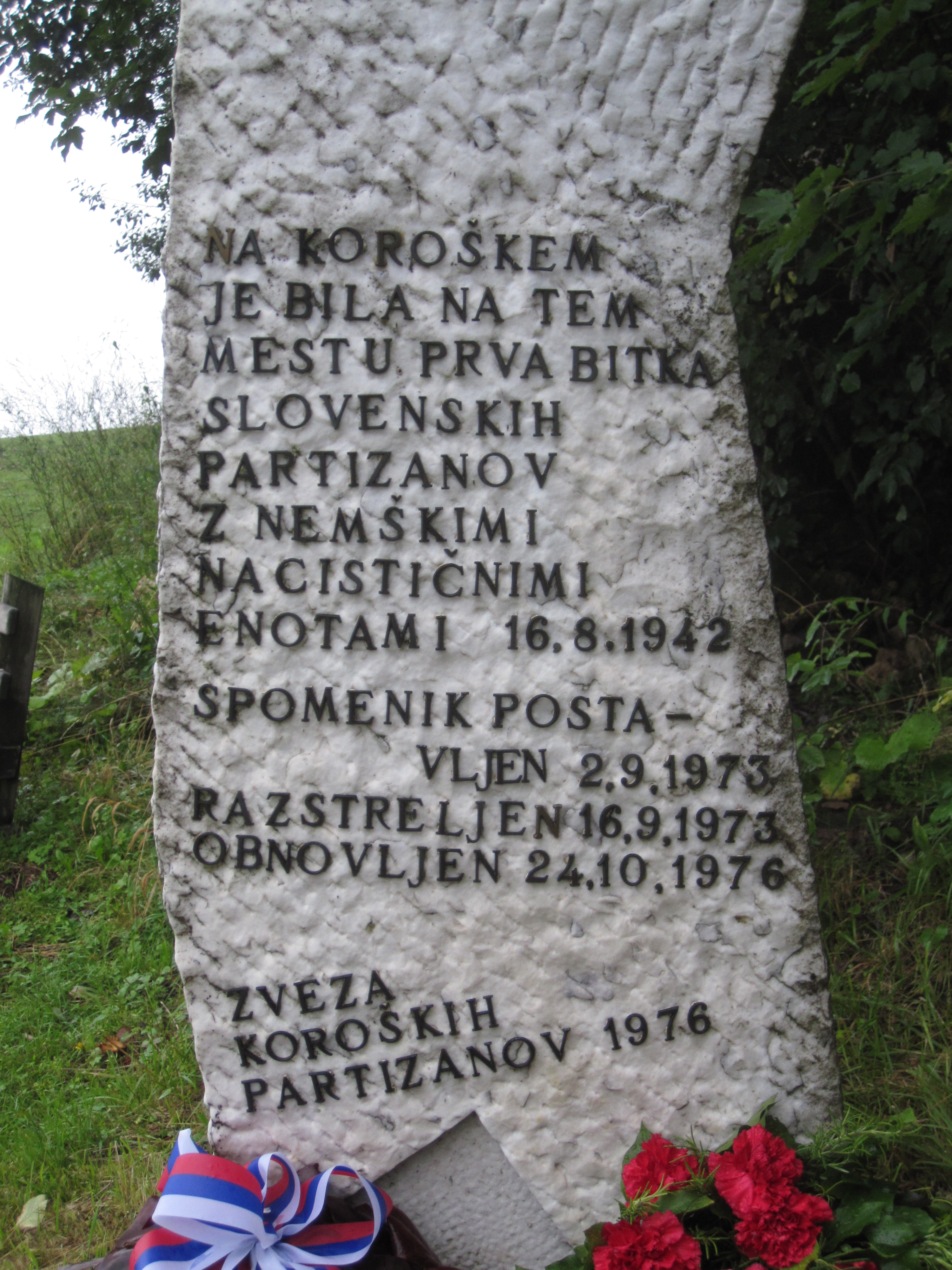 Memorial for the first military successfull partisan action during WW II on the territory of the German Reich on 16. August 1942 in the location of Robeže / Robesch in Carinthia/Austria (detail).